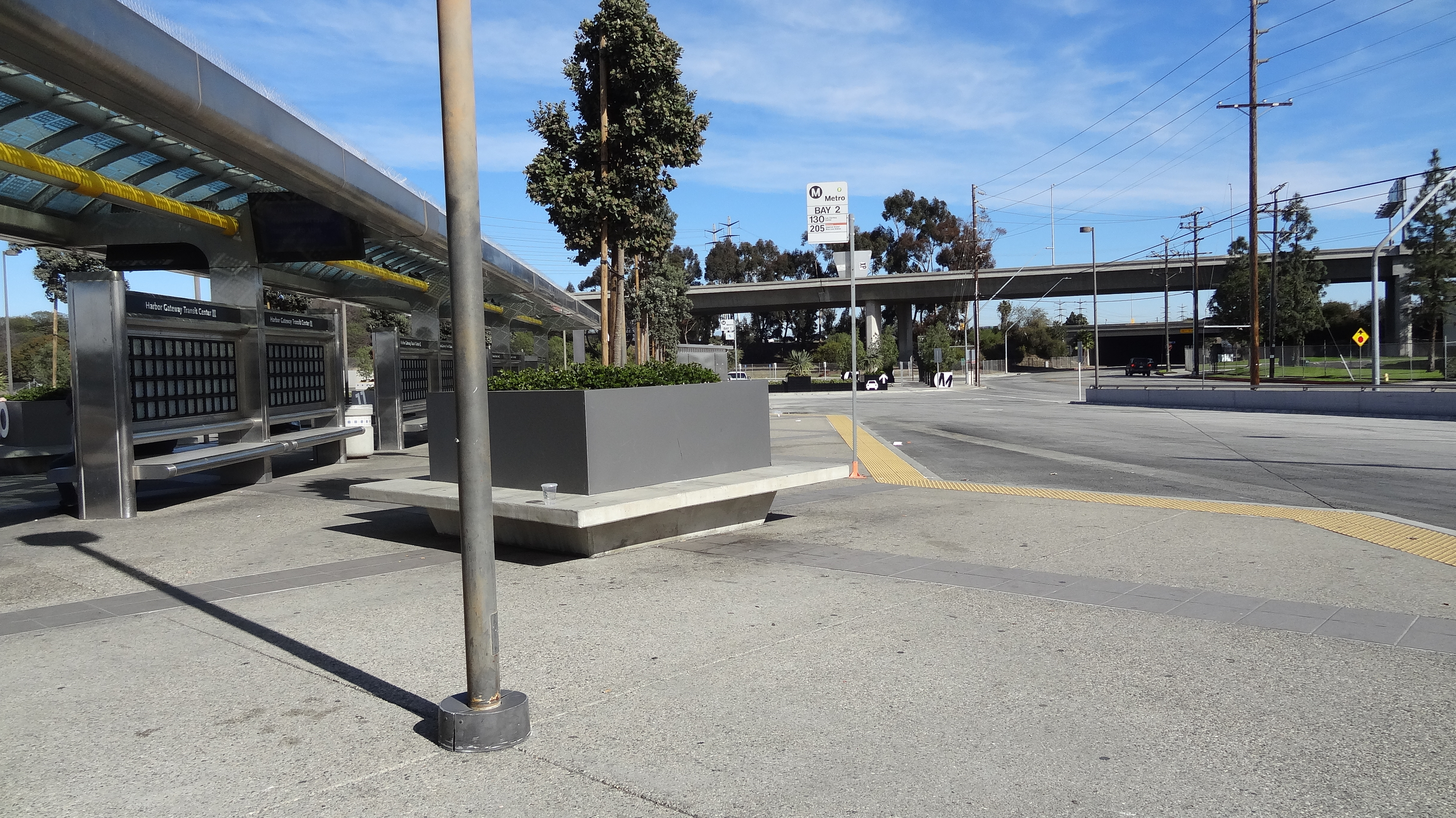 Harbor Gateway Transit Center